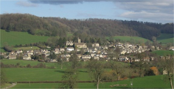 View of the central part of the village of Uley in Gloucestershire, UK, taken from the south during February 2005.